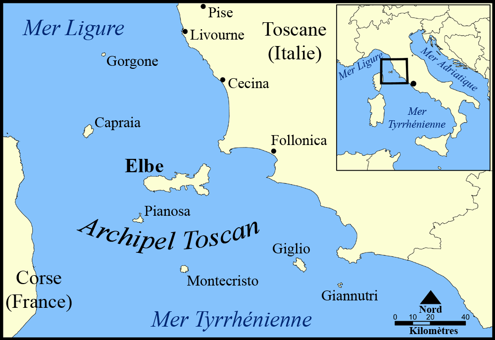 This map shows the islands of the Tuscan archipelago, including Elba, Capraia, Giglio, Montecristo, Pianosa, Gorgona, and Giannutri. Translated into french.